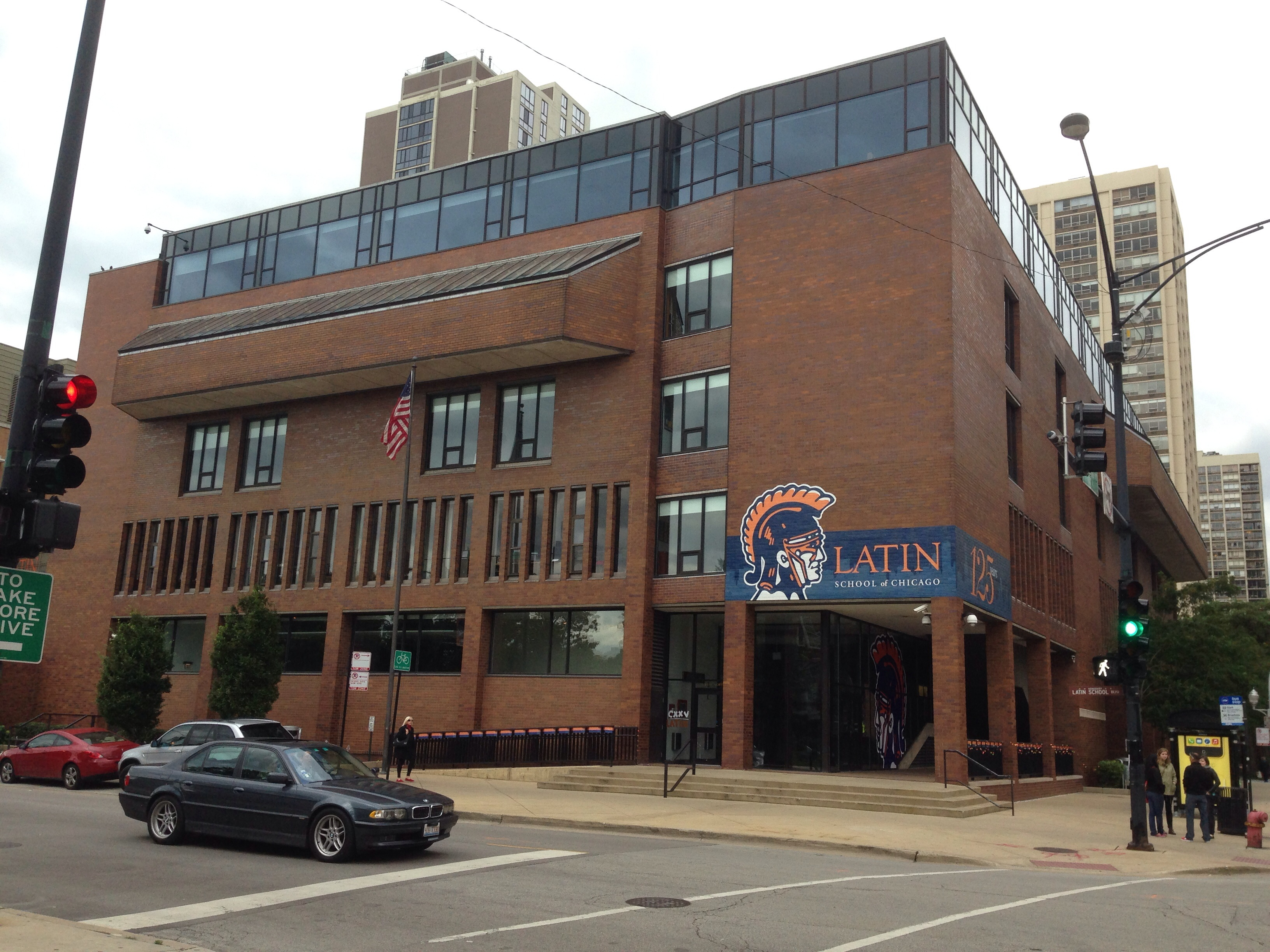 Latin School of Chicago